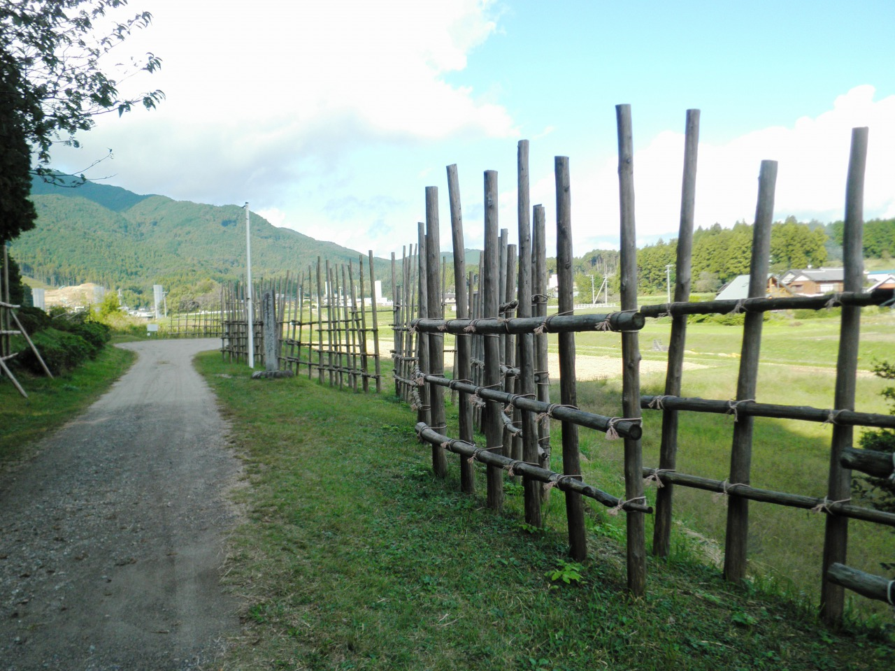 Reproducted "babōsaku", wooden stockades built by Oda and Tokugawa forces in the battle of Nagashino, located in Shinshiro, Aichi.